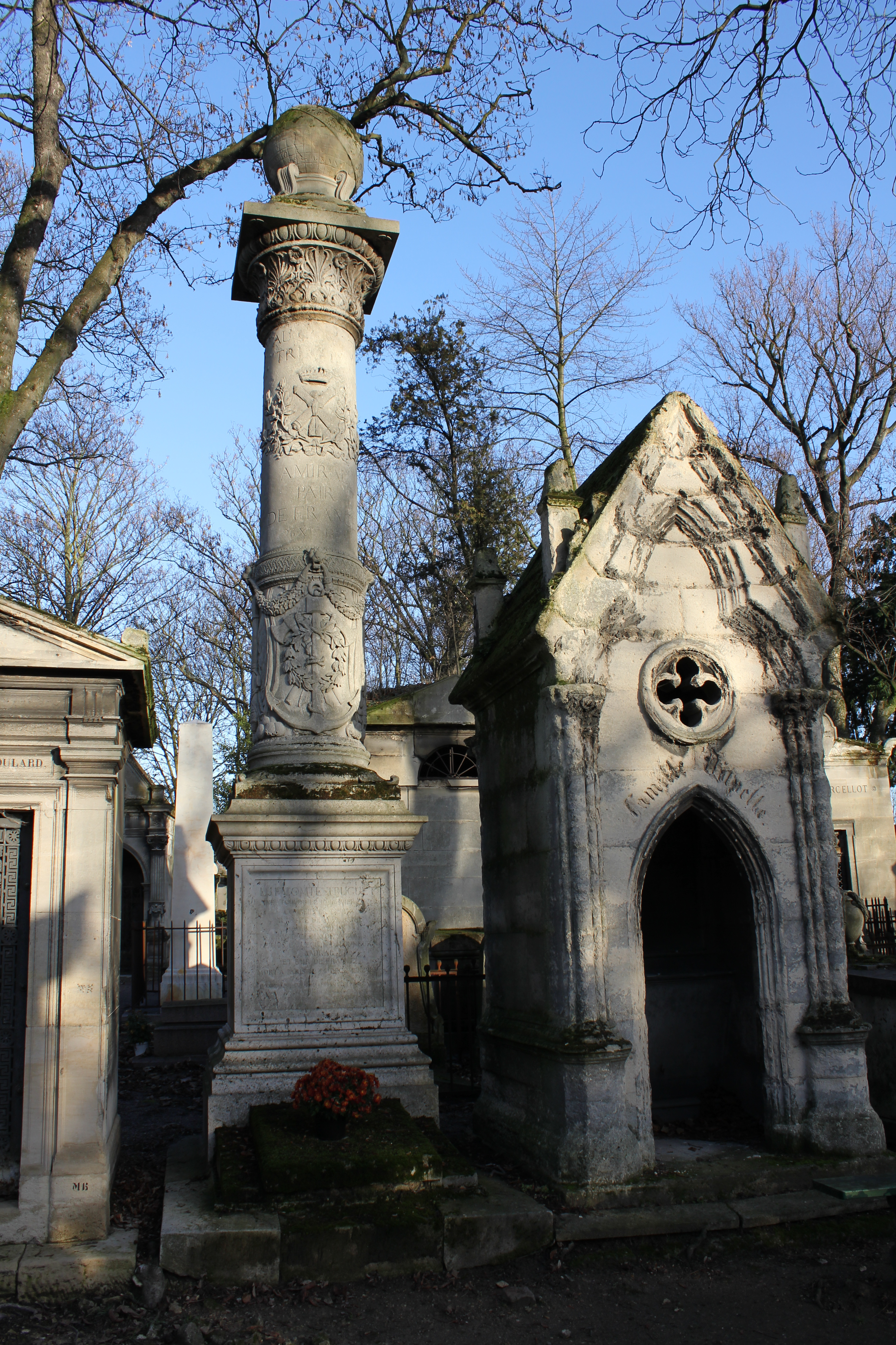 Laurent Jean François Truguet's tombstone in Père Lachaise Cemetery, in Paris.